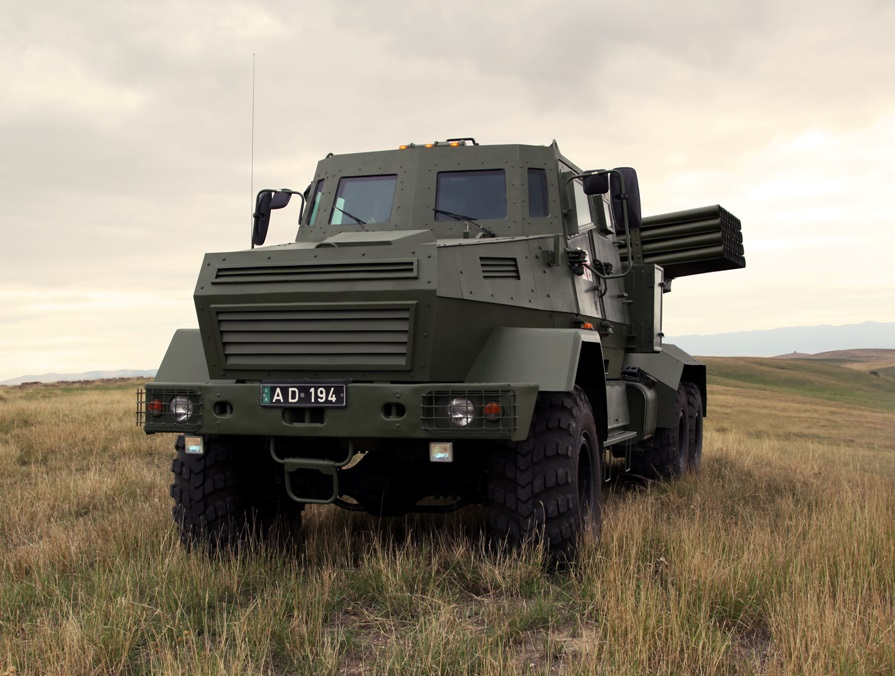 georgian made MLRS DRS-122